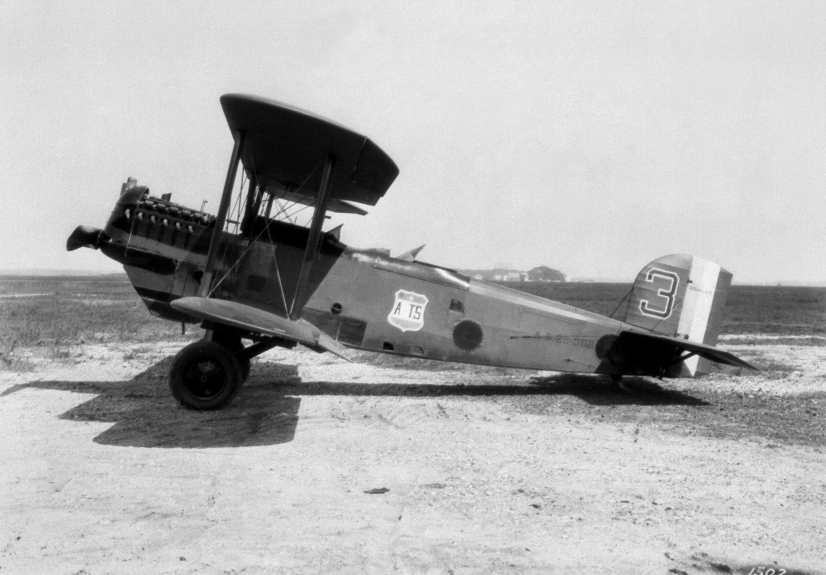 A U.S. Army Air Corps Douglas O-2 trainer (s/n 25-368) in the markings of the USAAC Tactical School at the NACA Langley Research Center, Hampton, Virginia (USA), on 13 September 1926.